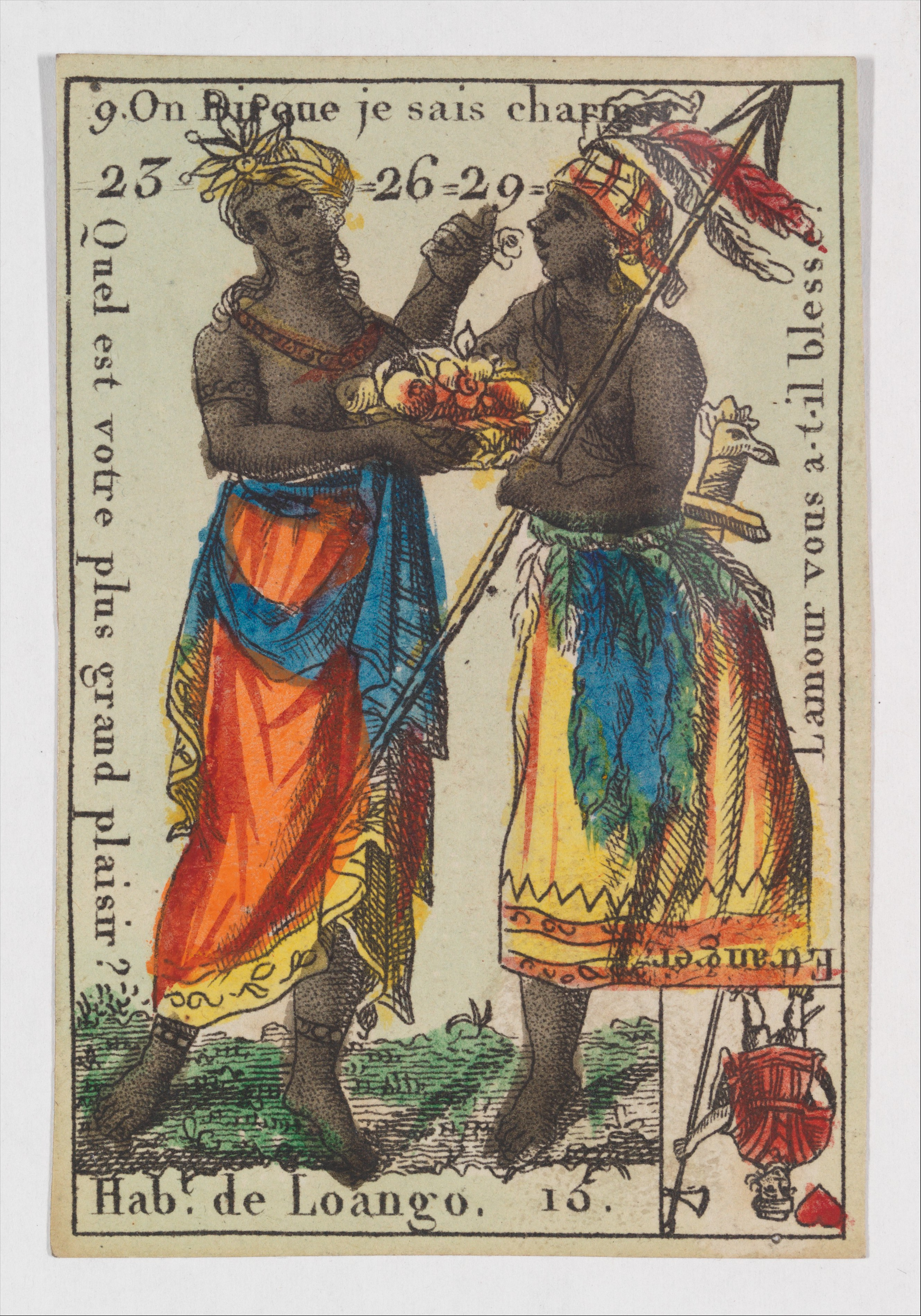 Print; Prints